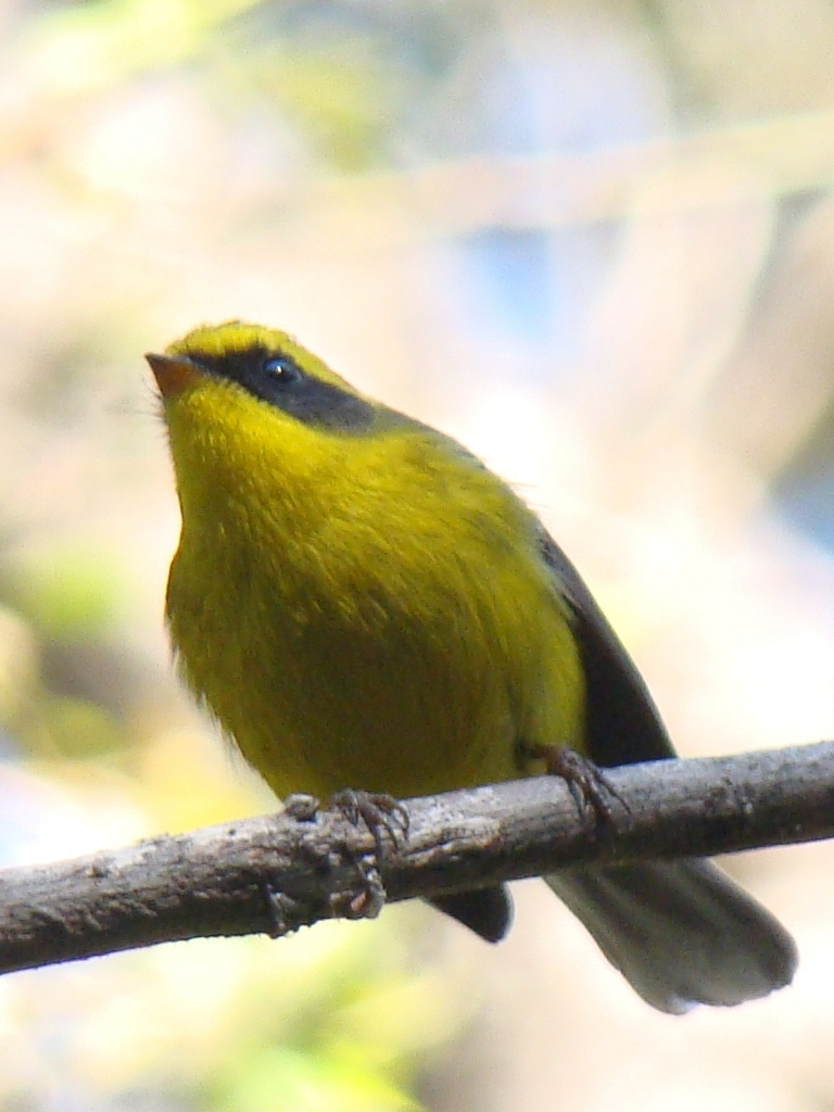 Yellow-bellied Fantail (Rhipidura hypoxantha) is a fantail flycatcher found in the Indian Subcontinent.